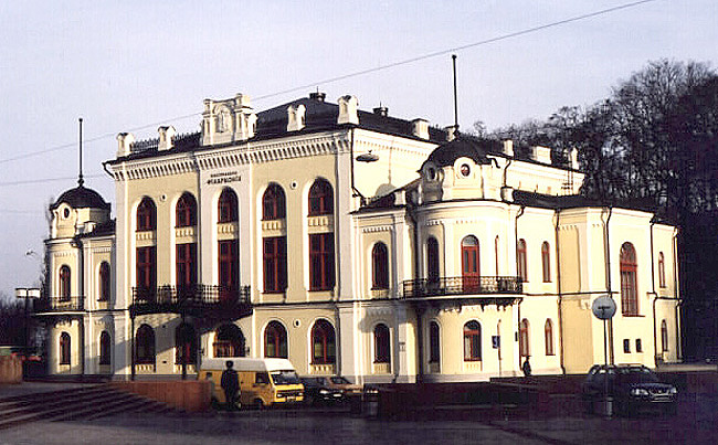 A building of the Philharmonic Society in Kiev